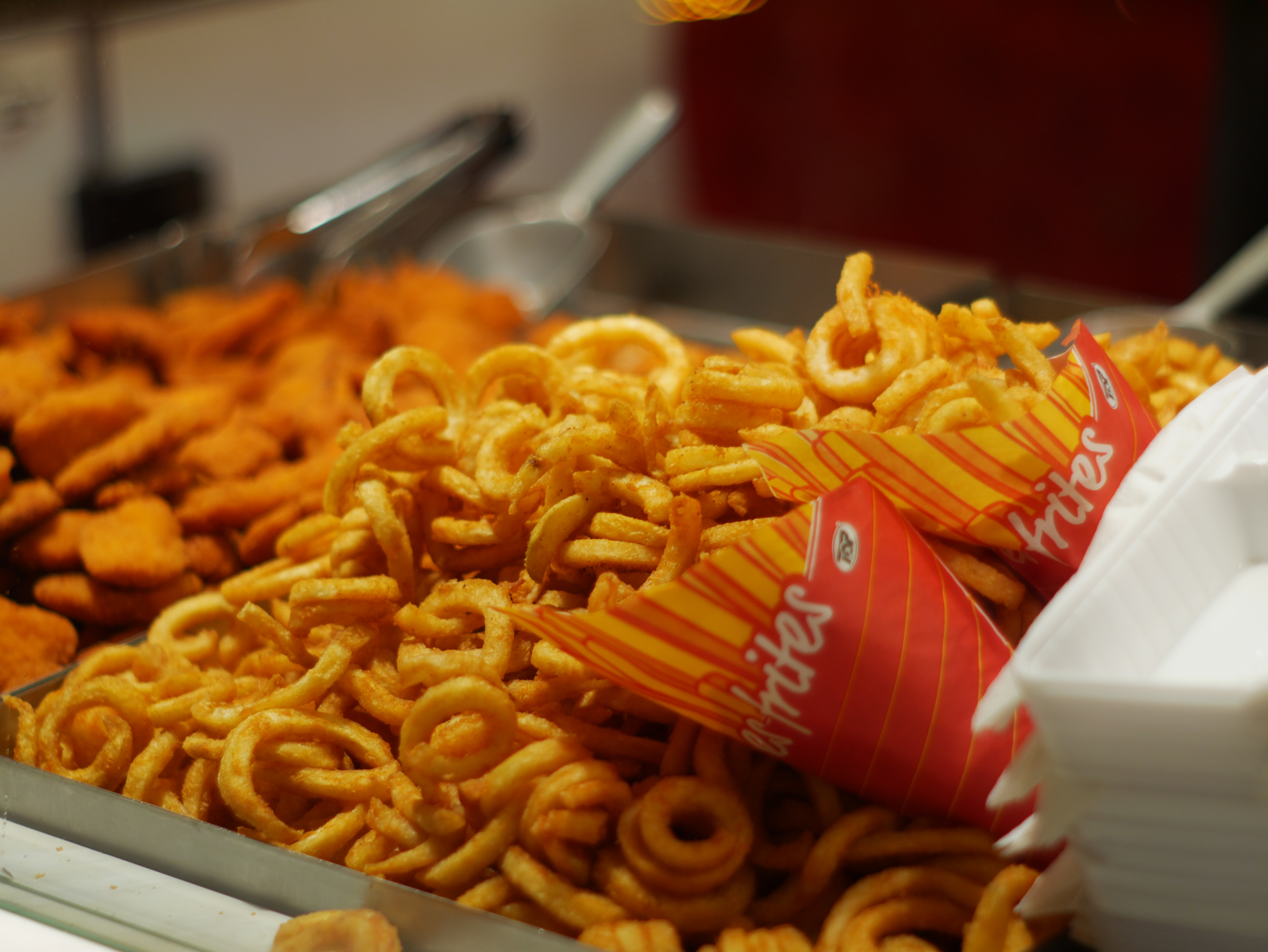 Curly fries on the Christmas market in Osnabrück 2015, Germany